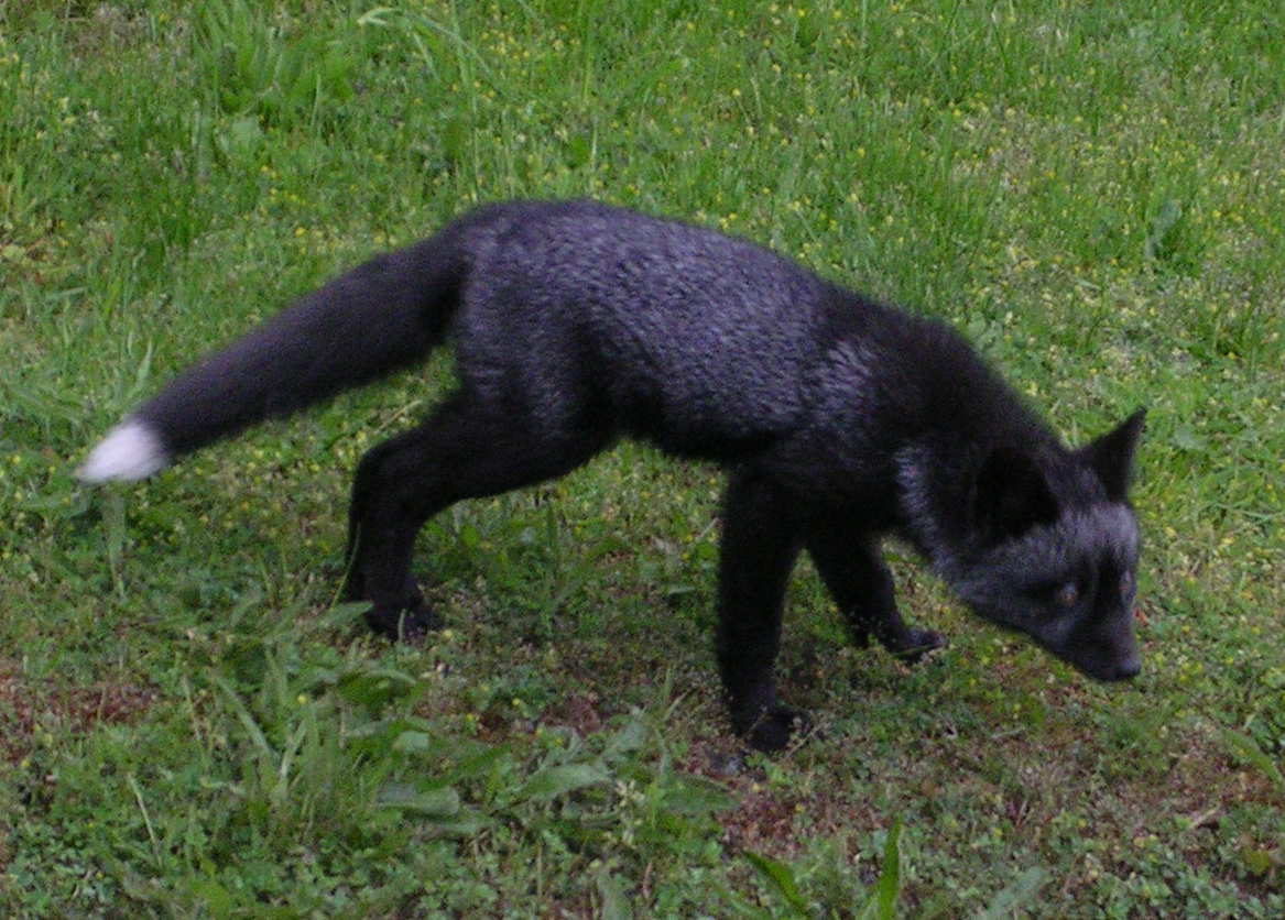 A black colour phase of a Red Fox, San Juan Island, Washington